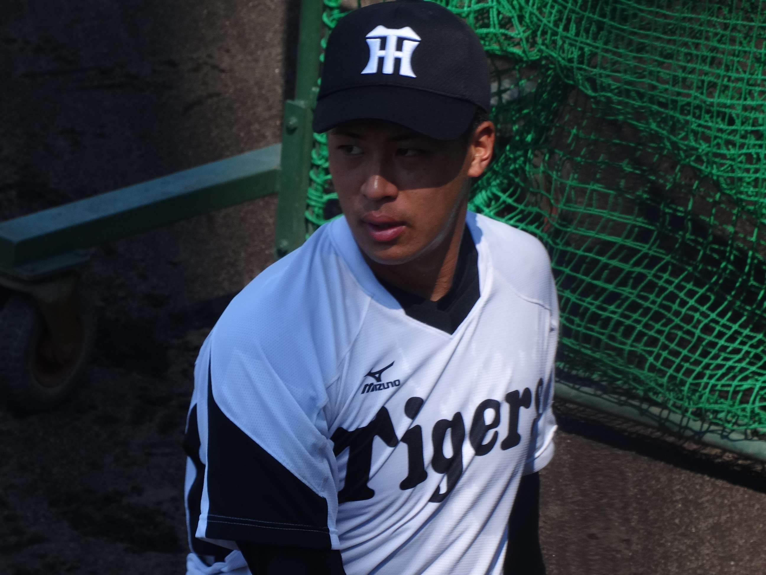 Kai Ueda, infielder of the Hanshin Tigers, at Hanshin Naruohama Baseball Ground